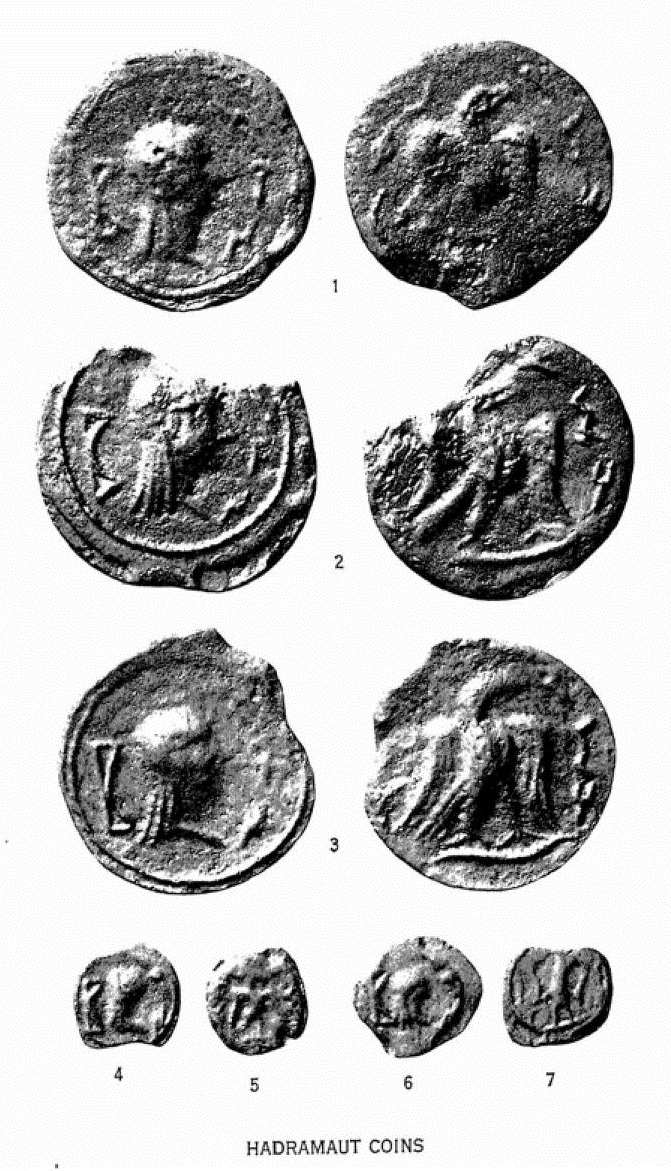 Hadramaut coins